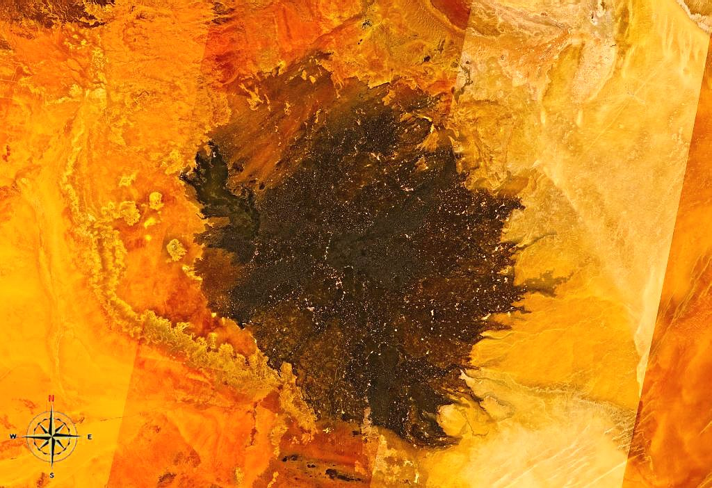 Haruj volcano, and its volcanic field. Satellite picture over it in central Libya, in the Fezzan region's northern Sahara Desert.